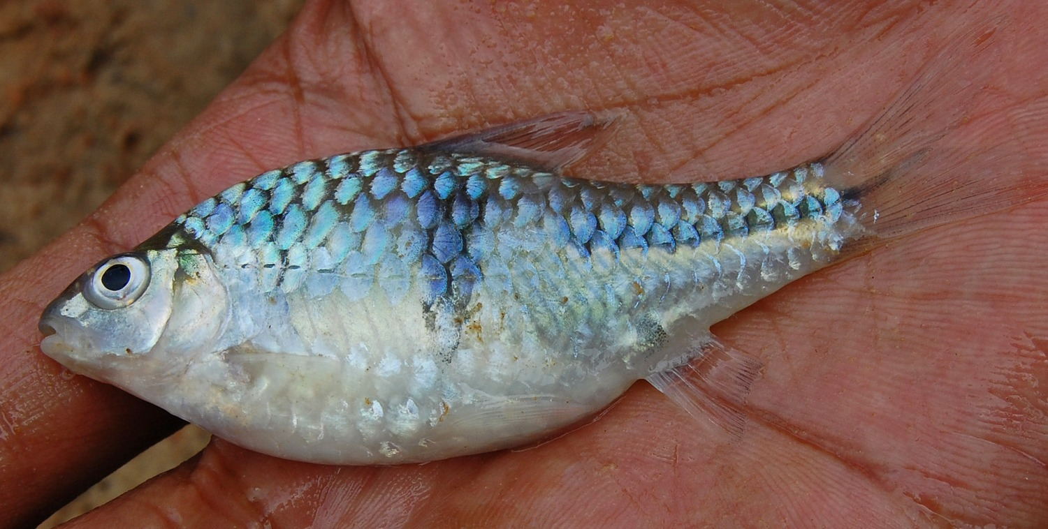 Puntius lateristriga (66mm SL). From Napuh River (2°22.898’S 103°48.907’E), Bayung Lencir, Musi Banyuasin, Province of South Sumatra, Indonesia